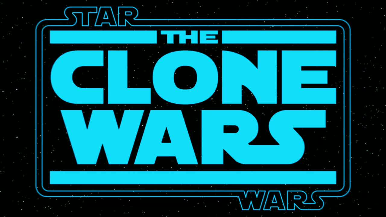 Blue logo of Star Wars: The Clone Wars